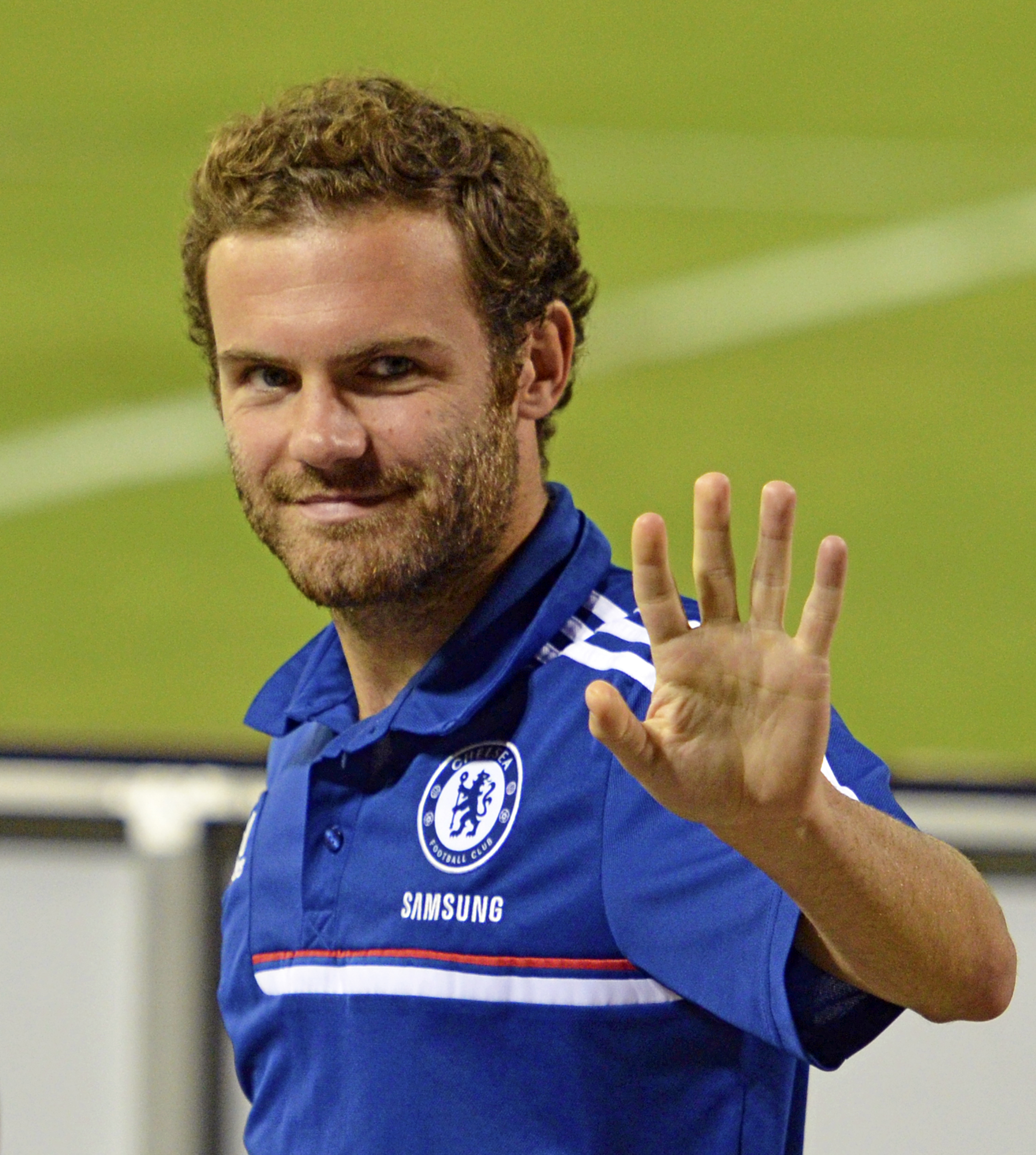 Juan Mata in a non-playing training uniform. Pictured in Washington D.C.'s RFK Stadium. Chelsea FC played a friendly against A.S. Roma but Mata did not participate other than to motivate his teammates on the reserve squad.